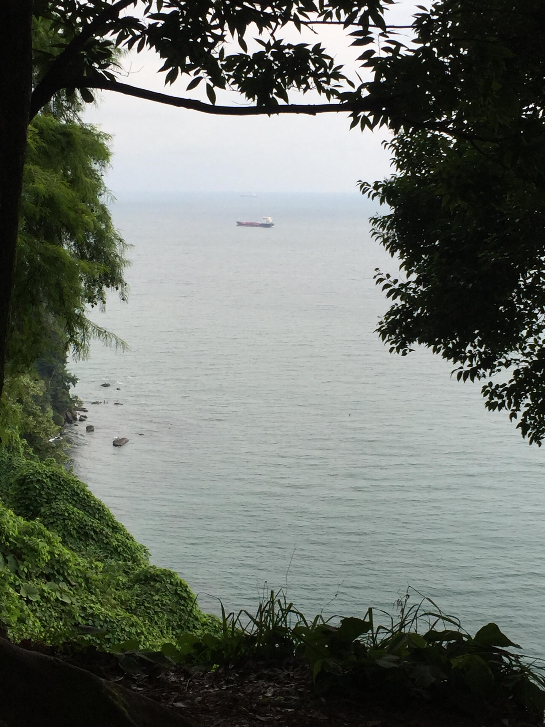 View to Black sea from Botanical garden